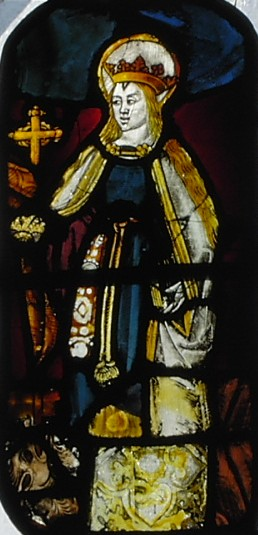 Photograph of stained glass in Oriel College Chapel - St Margaret of Antioch